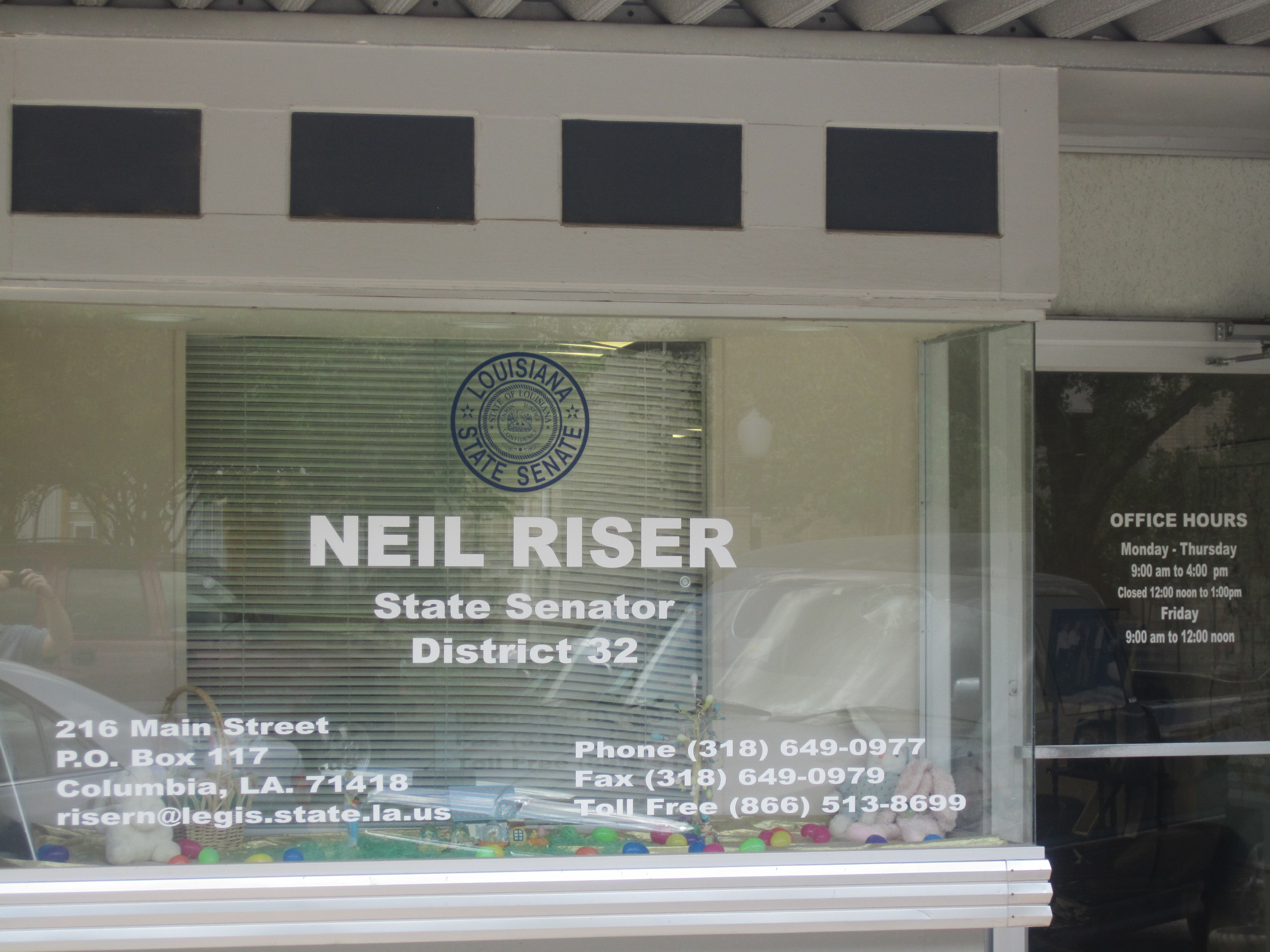 I took photo with Canon camera in Columbia, LA, of Senator Neil Riser's local office.